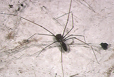 female Smeringopus pallidus with egg sac from Okinawa.